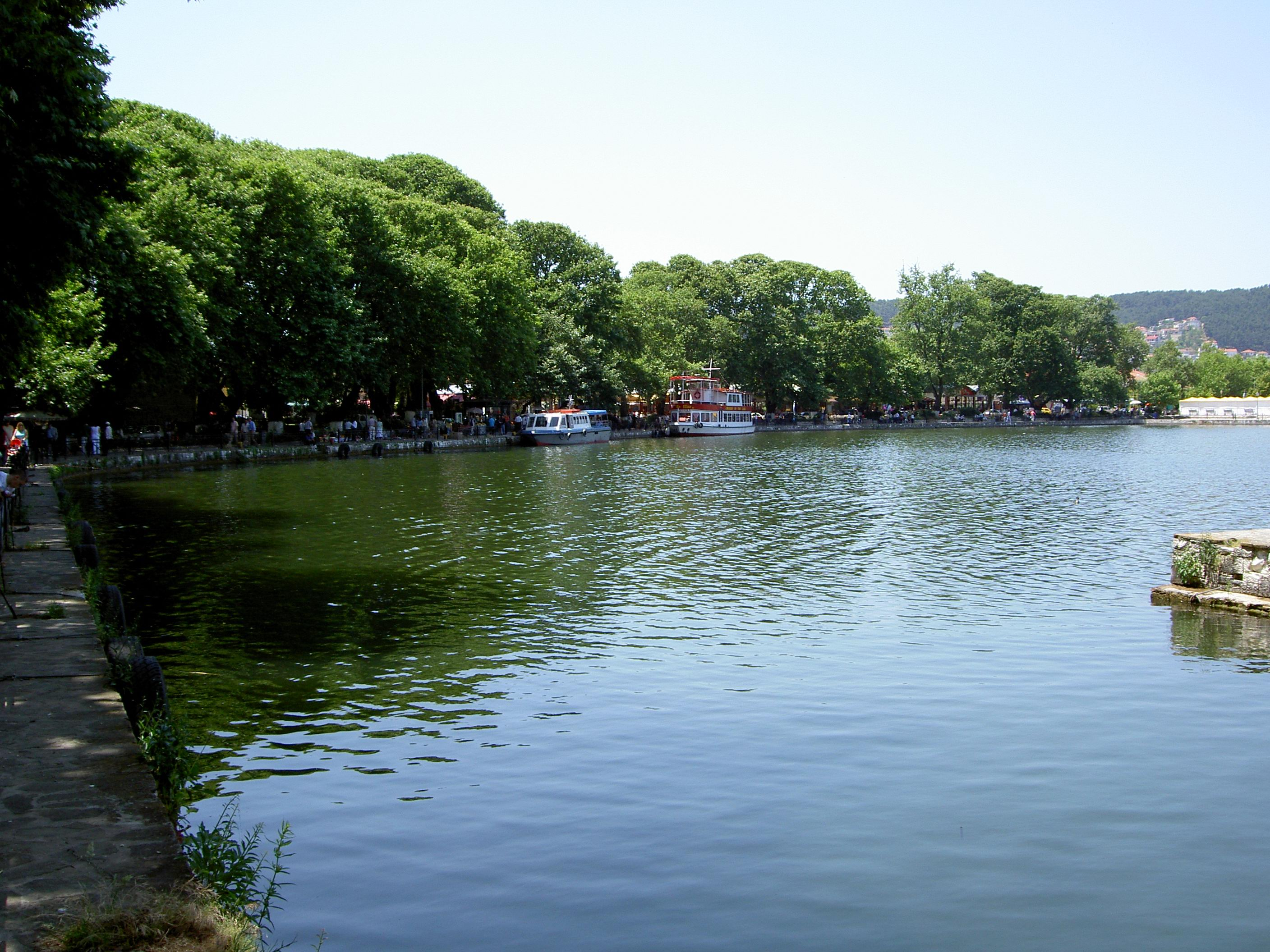 A view from the lake Pamvotis on June